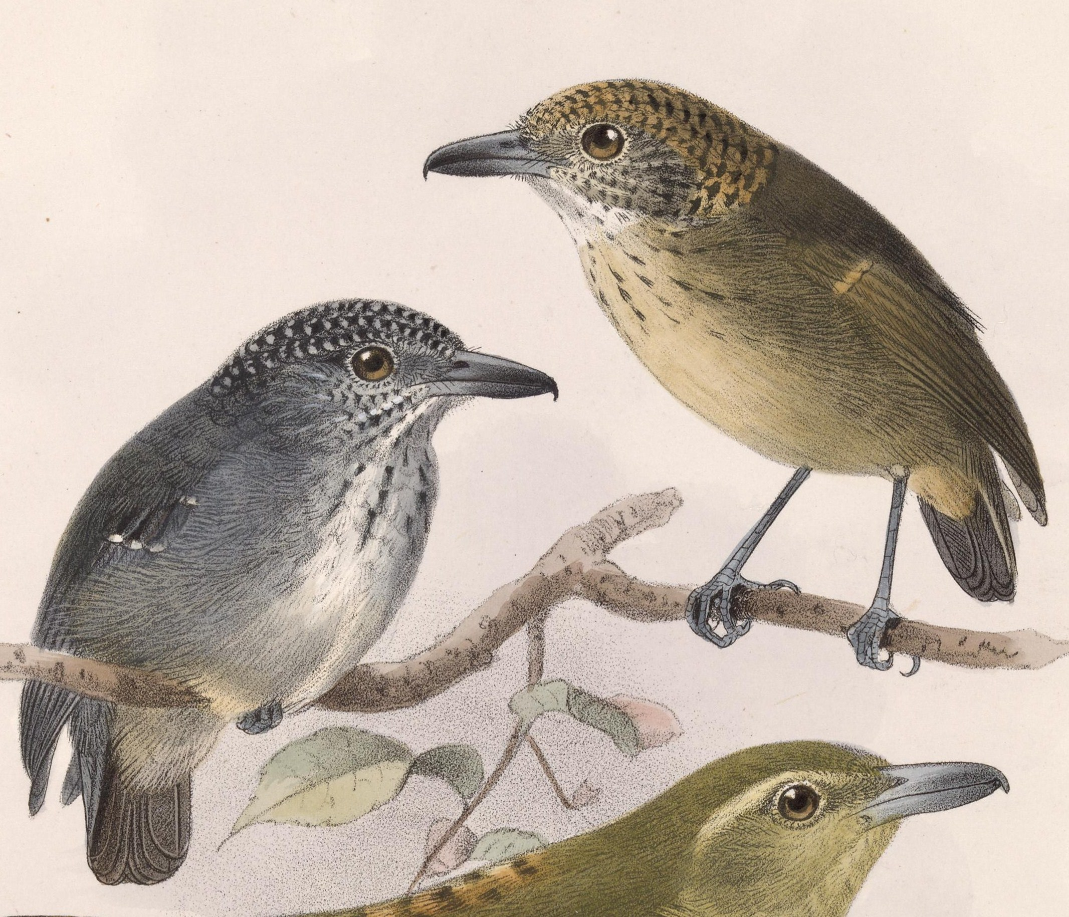 « Dysithamnus puncticeps » = Dysithamnus puncticeps (Spot-crowned Antvireo) - male and female